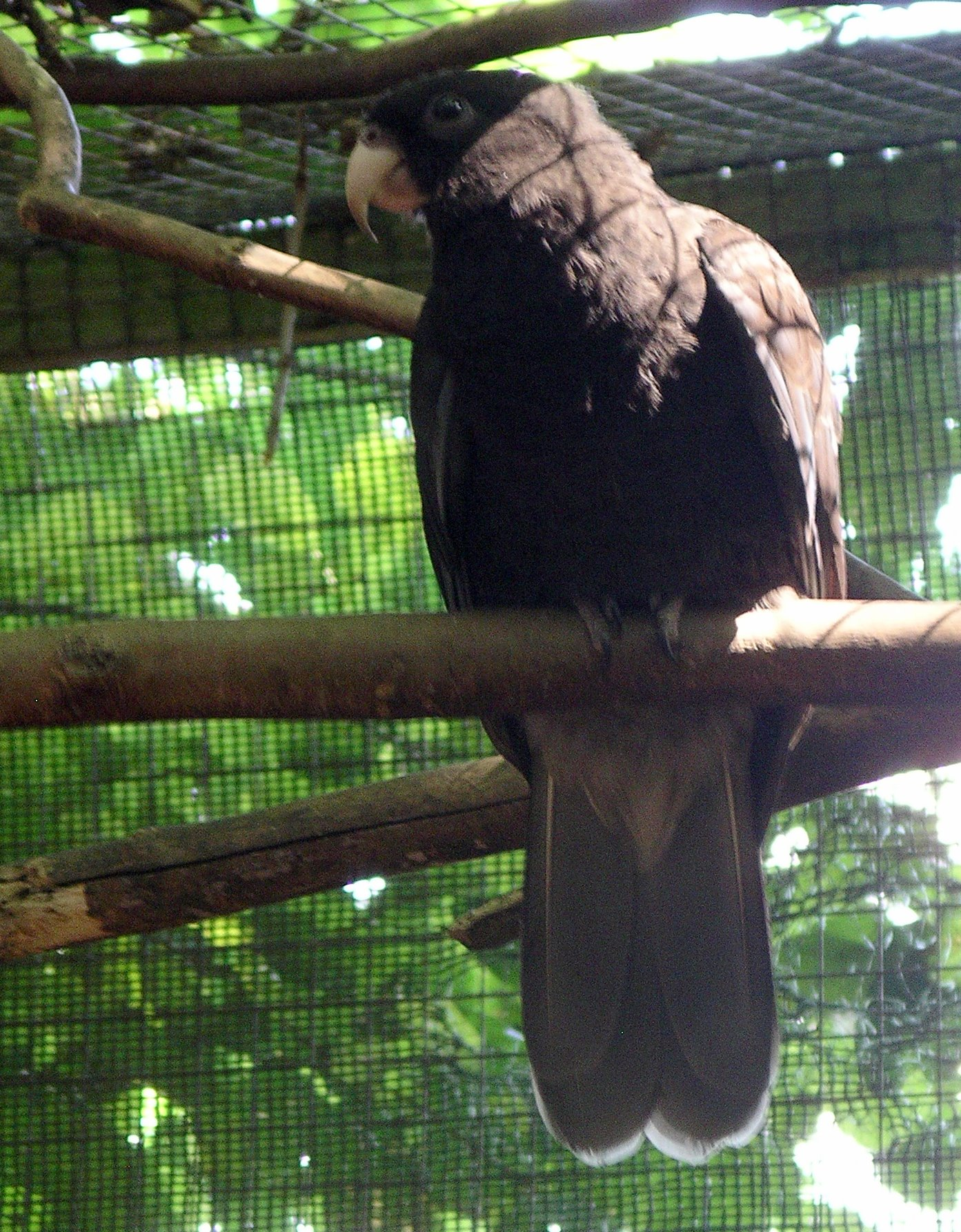 A female Lesser Vasa Parrot in an aviary at Tropical Birdland, Leicestershire, England.